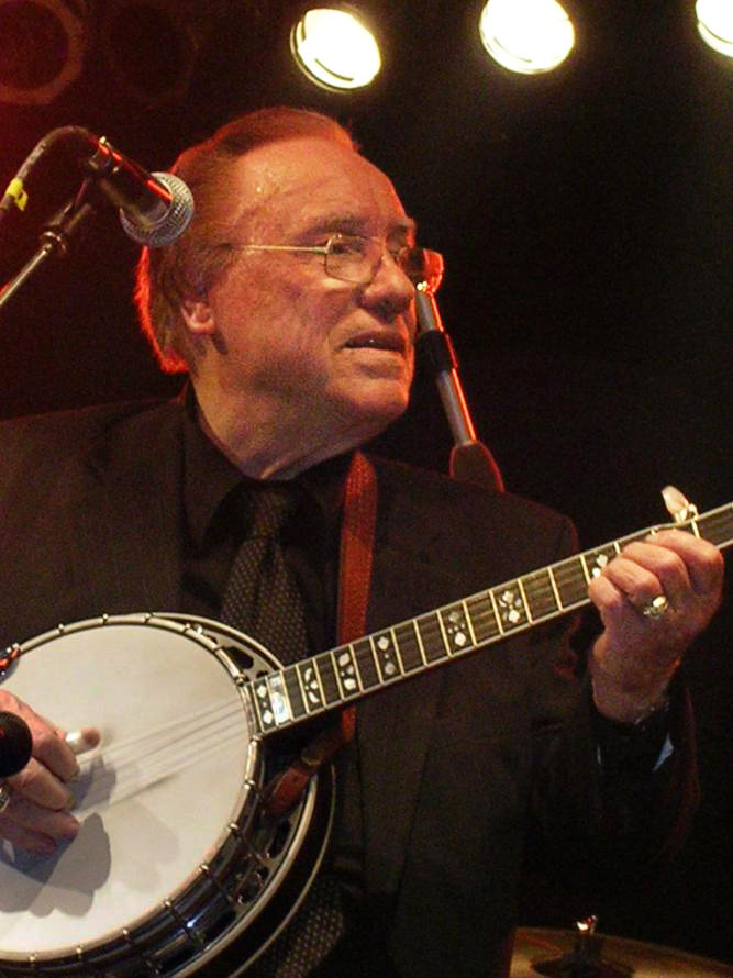 2005 picture of USA banjo player Earl Scruggs